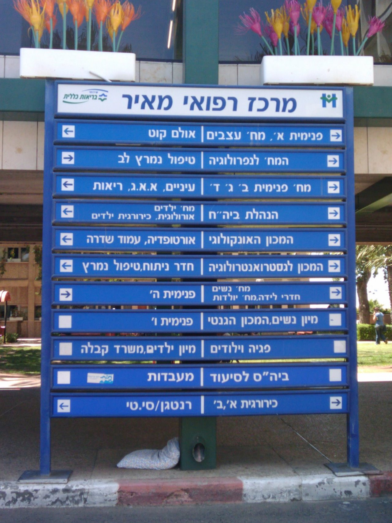 Meir Medical Center services